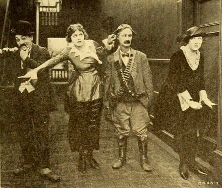 Still from the American comedy short film No Mother to Guide Him (1919) with Heinie Conklin, Myrtle Lind, Ben Turpin, and an unidentified actress, on page 1781 of the June 21, 1919 Moving Picture World.